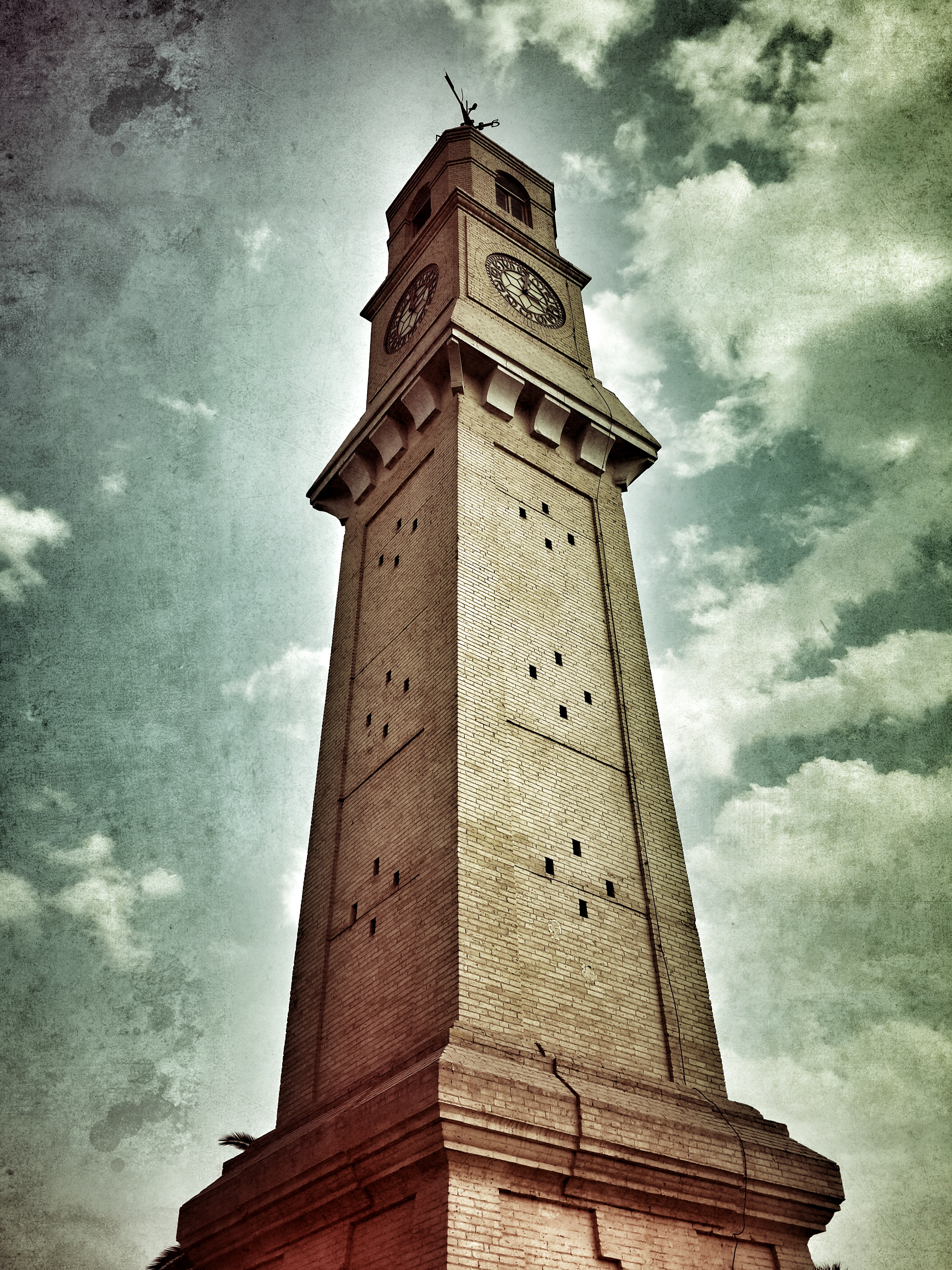 This is Qushla square in almutanabi street one of the oldest streets in Baghdad